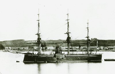 German Ironclad Hansa, launched in 1872 and serving in the German Navy 1875–1888.